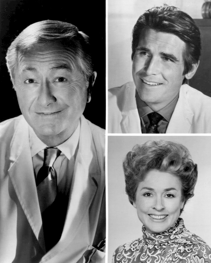 Cast photo from Marcus Welby, M.D. At left Robert Young (Marcus Welby)-right top, James Brolin (Steve Kiley), bottom right-Elena Verdugo (Consuelo).